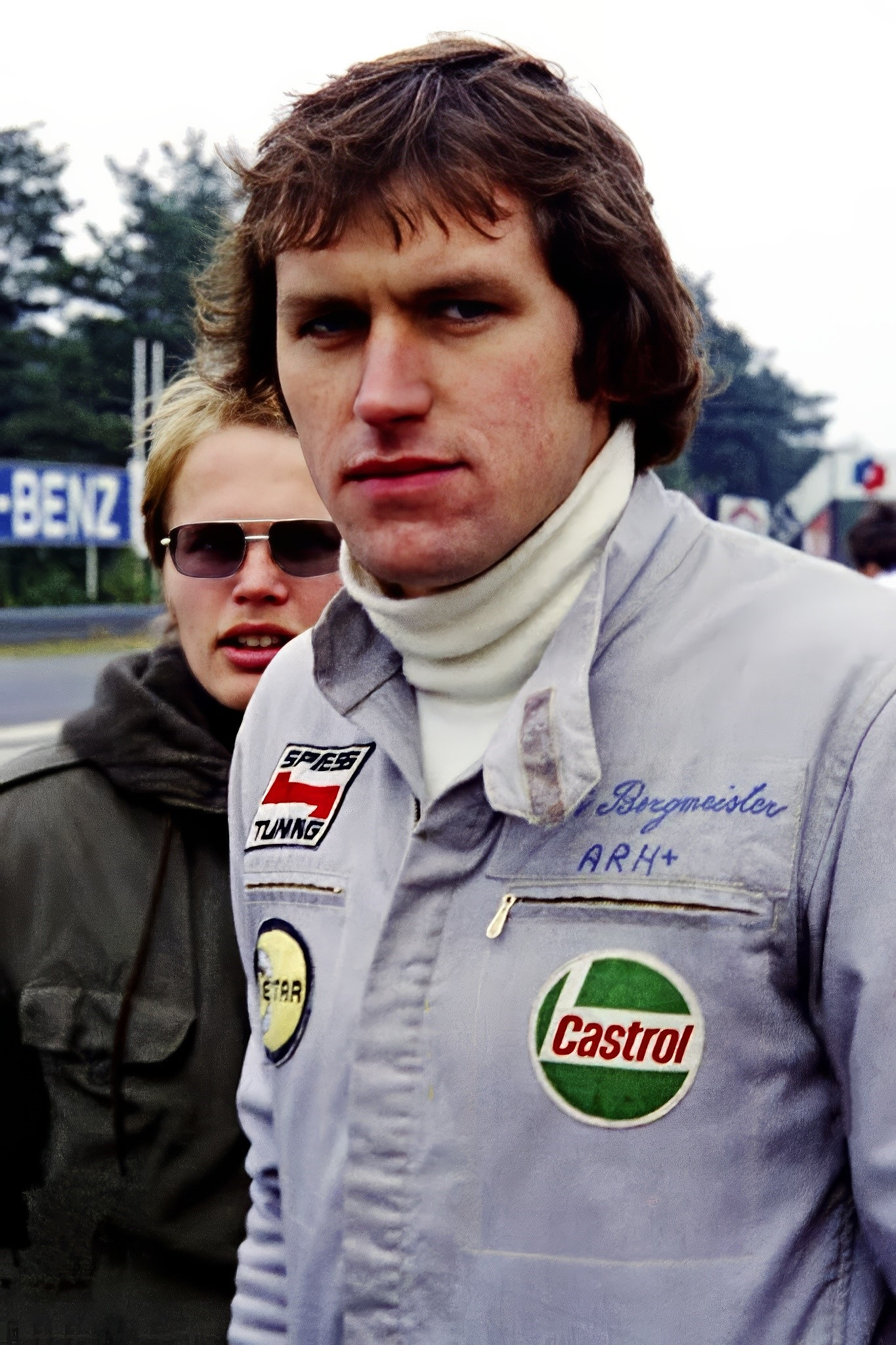 German racing driver Willi Bergmeister pictured in the summer of 1975 at the Circuit Zolder in Belgium.